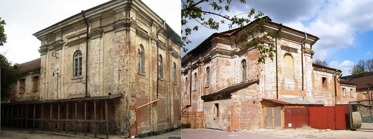 Former monastery and church of Poor Clare Sisters in the Old Town in Zamość before repair - on left side view from north (2006), on right side view from south (2007).